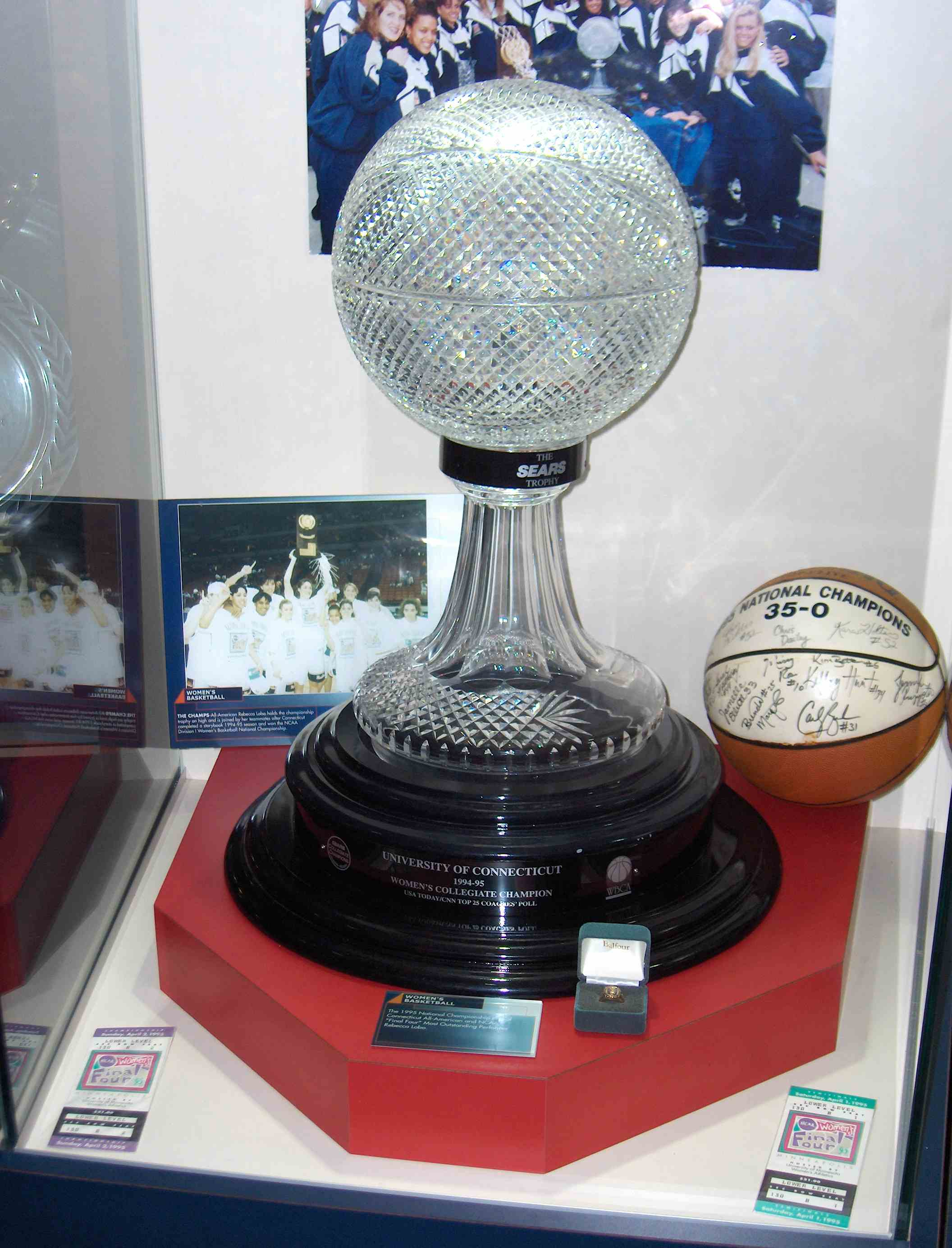 National Championship trophy, championship ring, ball signed by team, and other memorabilia in trophy case at the University of Connecticut (Alumni building, in Storrs CT USA) celebrating winning of the 1995 NCAA Division 1 Womens basketball tournament.